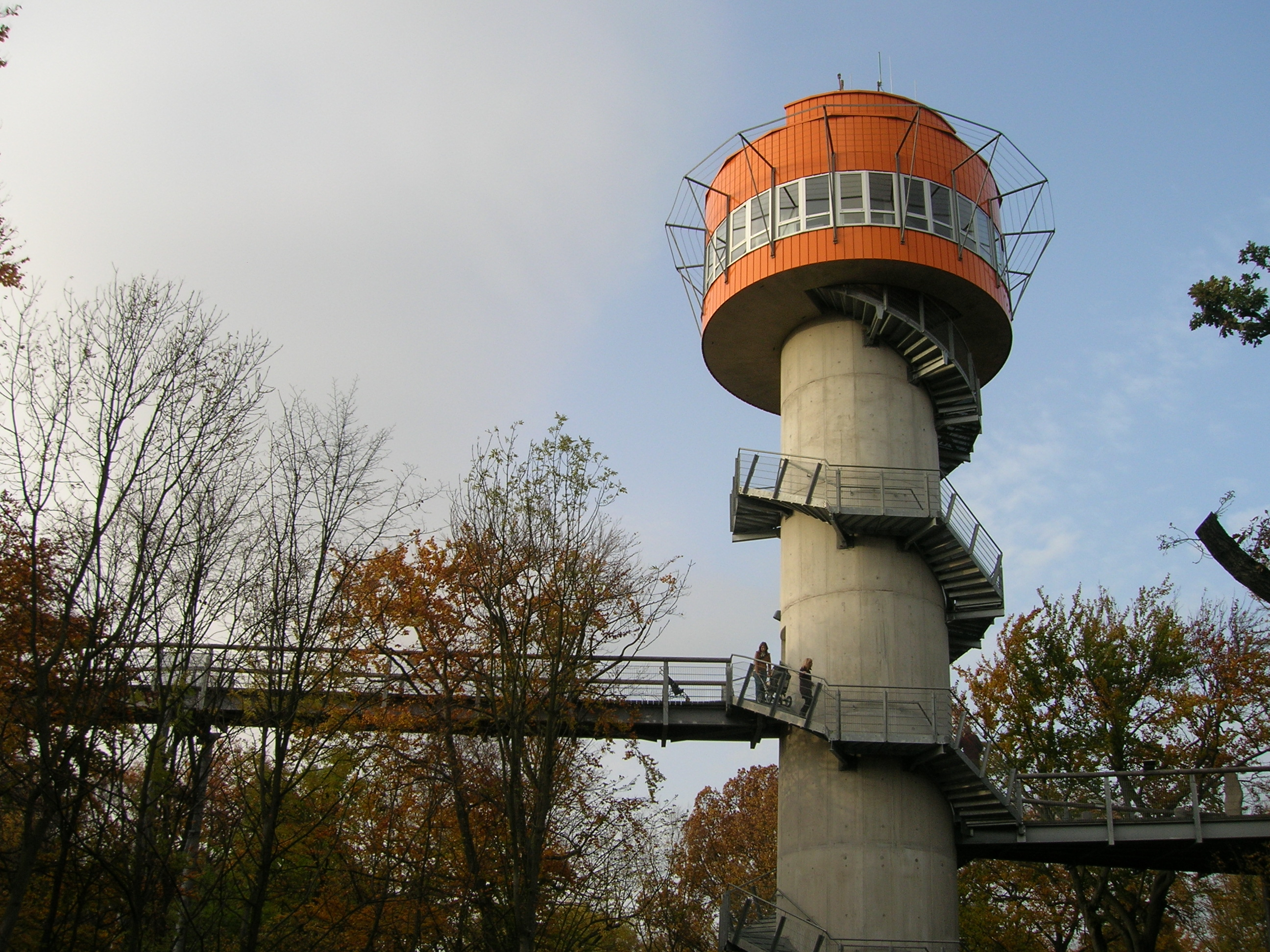 Observation tower of tree crown path in the national park Hainich